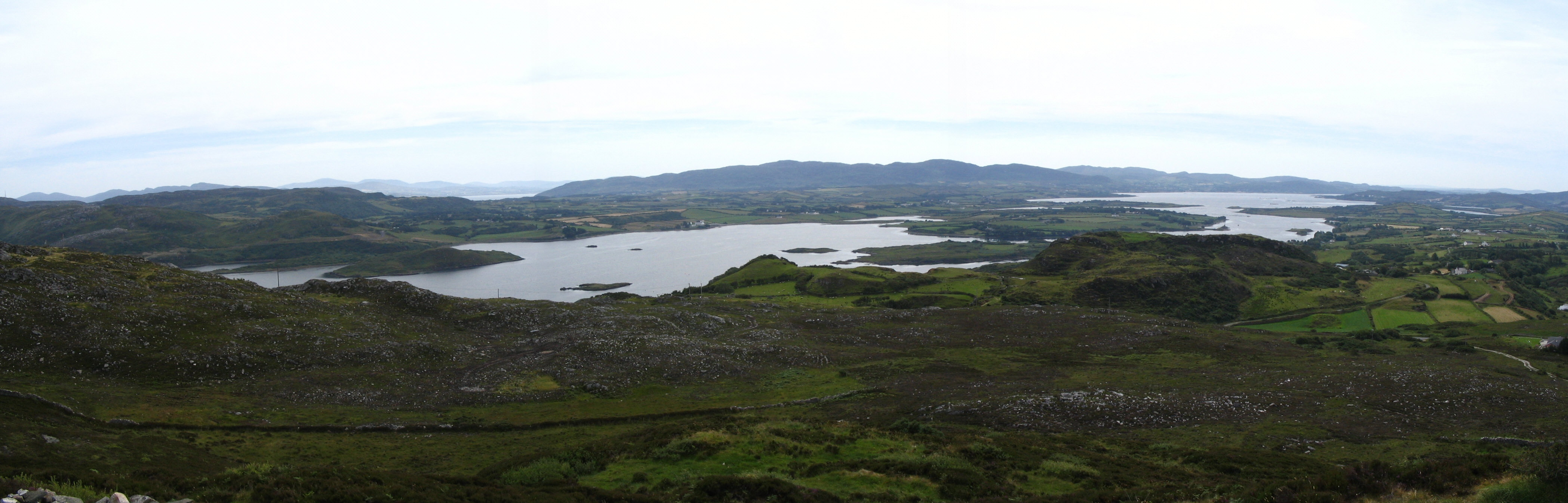 Mulroy Bay depuis Lurgacloughan